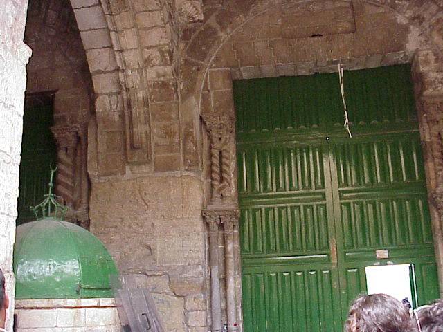 gate of the chain, in temple mount western wall